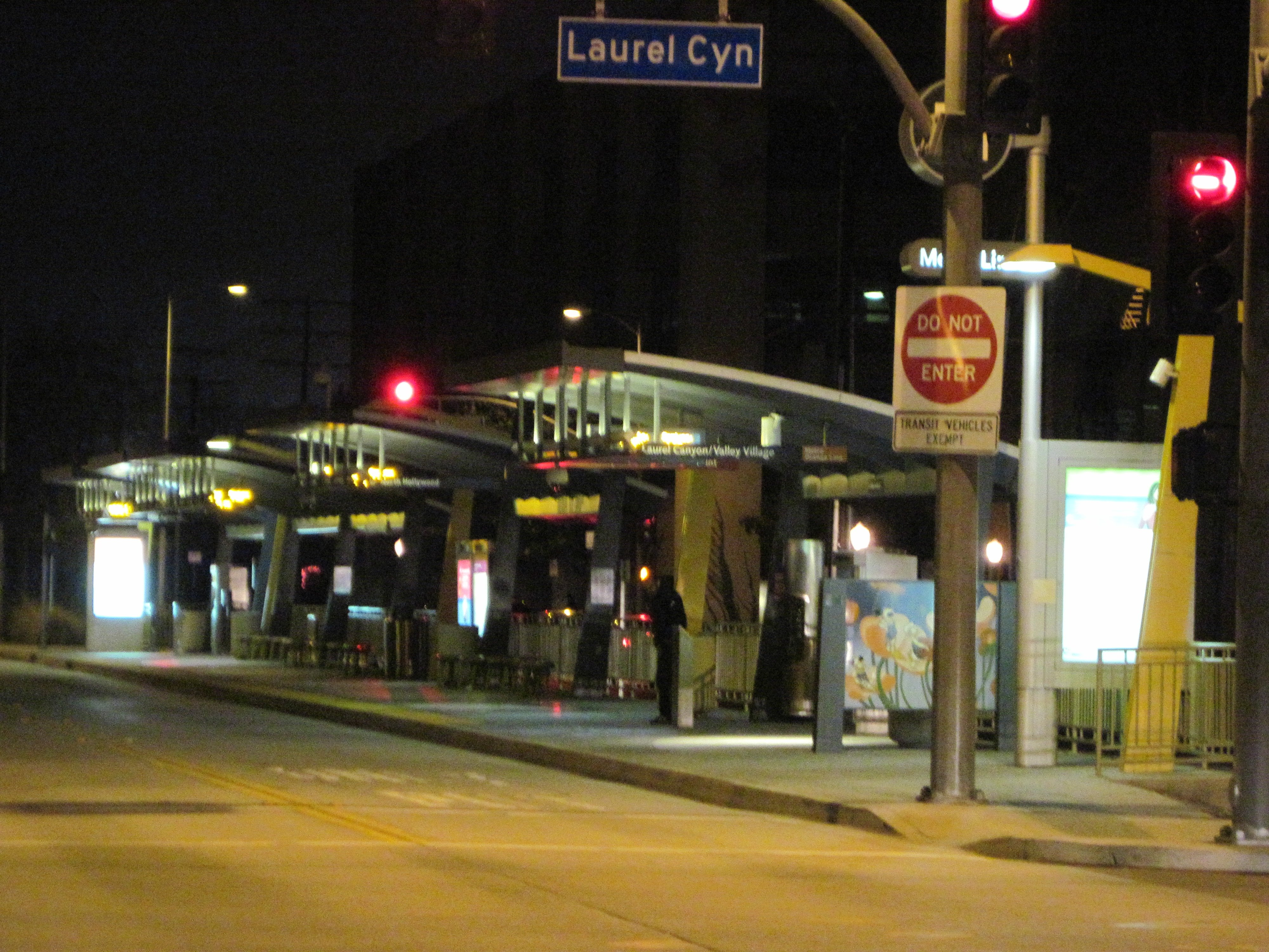 A nighttime photograph of the Los Angeles County Metropolitan Transportation Authority's Laurel Canyon station, serving the Metro Orange Line in Los Angeles, California, USA.